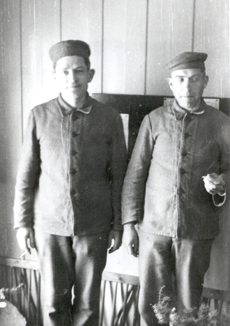 Fangelegene Carl Viggo Lange og Jørgen Ryther. The prisoner doctors Carl Viggo Lange and Jørgen Ryther. Dato / Date: 1942. Fotograf / Photographer: ukjent / unknown. Sted / Place: Ekne, Nord-Trøndelag, Norge / Norway. Arkivreferanse /Archive reference: FSM foto 0700166.